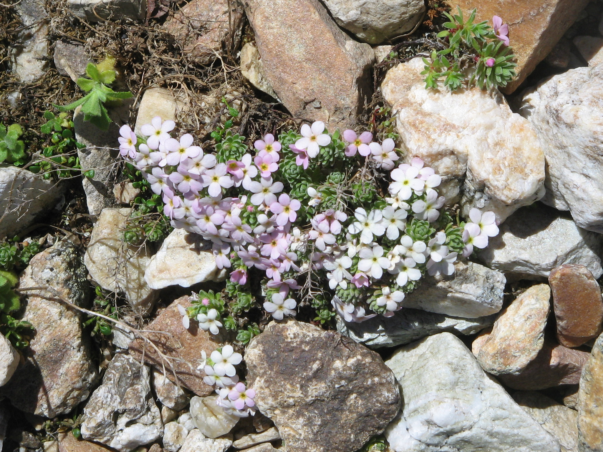 Androsace alpina